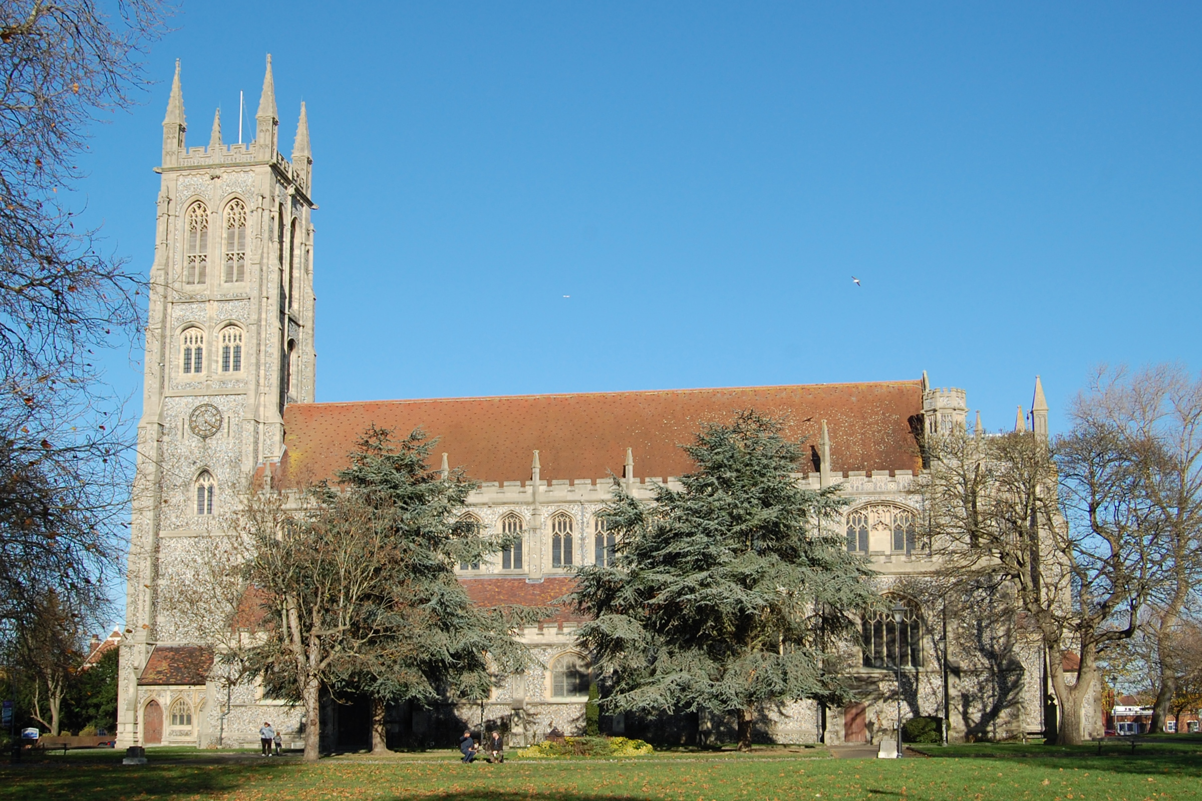 St Mary's Church, Fratton Road, Fratton, City of Portsmouth, England. An Anglican parish church with ancient origins, rebuilt in the Victorian era. It serves the Kingston, Fratton and Buckland areas of the city, but its parish originally covered most of Portsea Island.